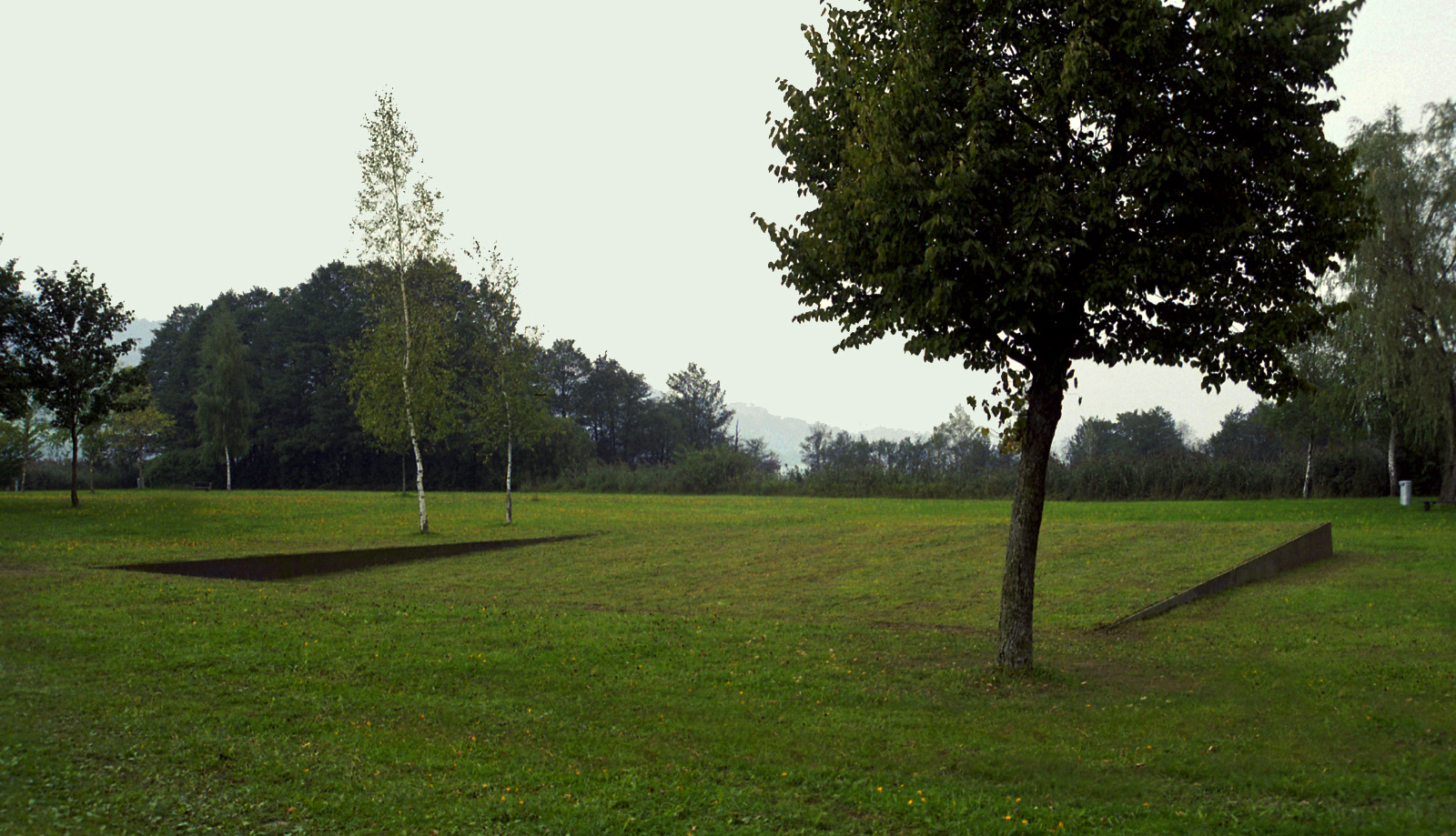 Benoît Tremsal, Tilted Area, 1999, - Austria, Zell am Moos, in the nature protection area of Irrsee